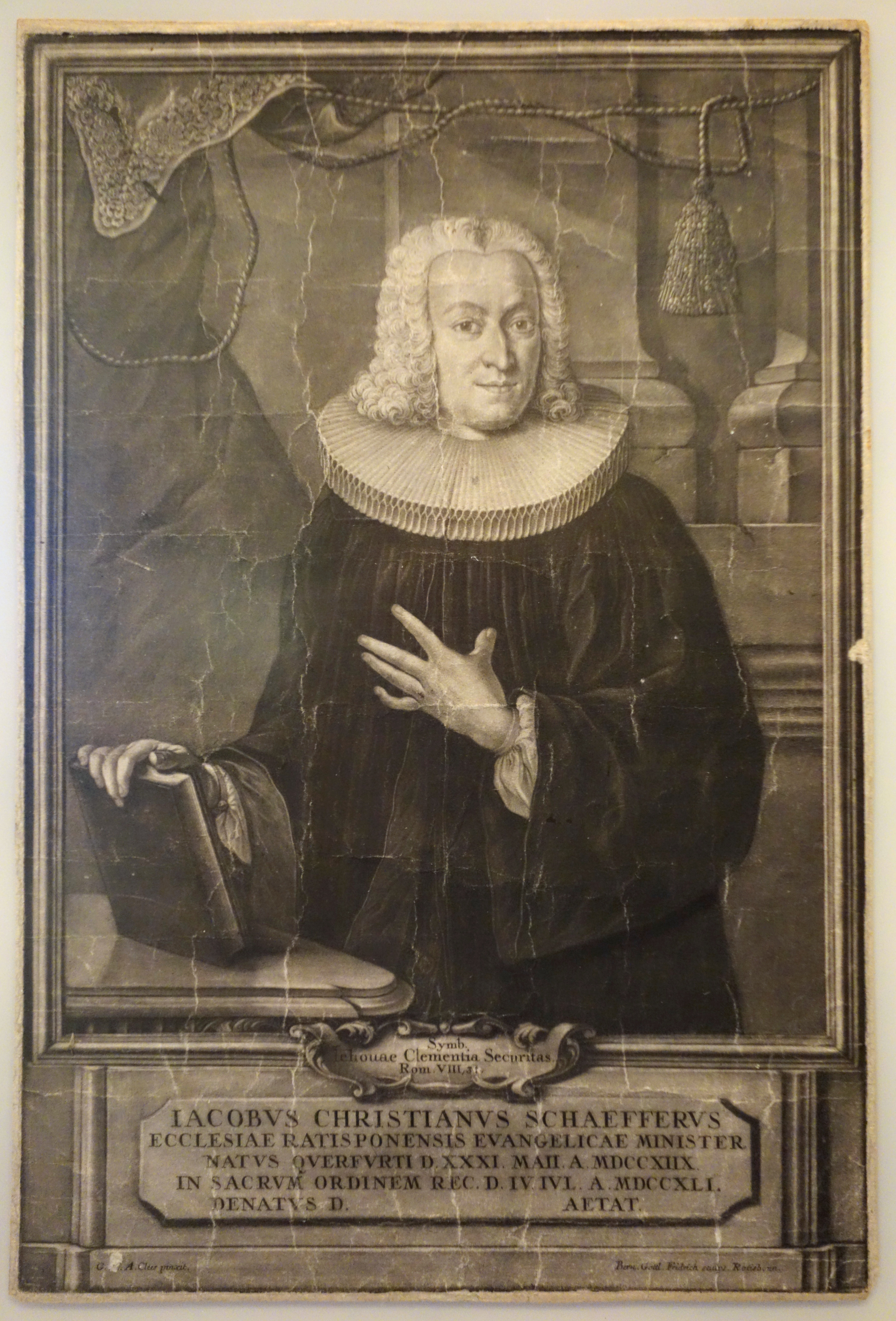 Exhibit in the Robert C. Williams Paper Museum, Atlanta, Georgia, USA. This work is old enough so that it is in the public domain.